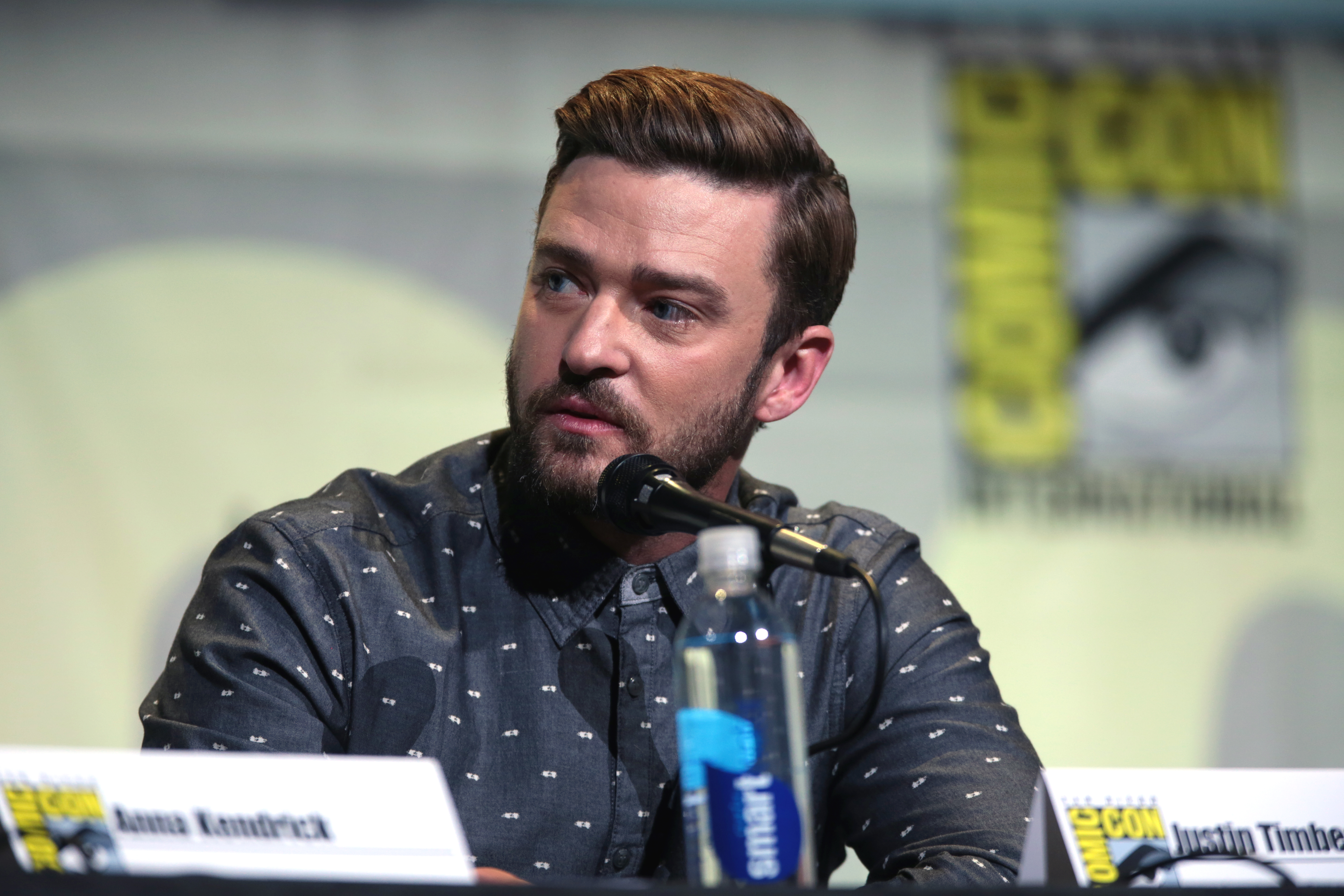 Justin Timberlake speaking at the 2016 San Diego Comic Con International, for "Trolls", at the San Diego Convention Center in San Diego, California.